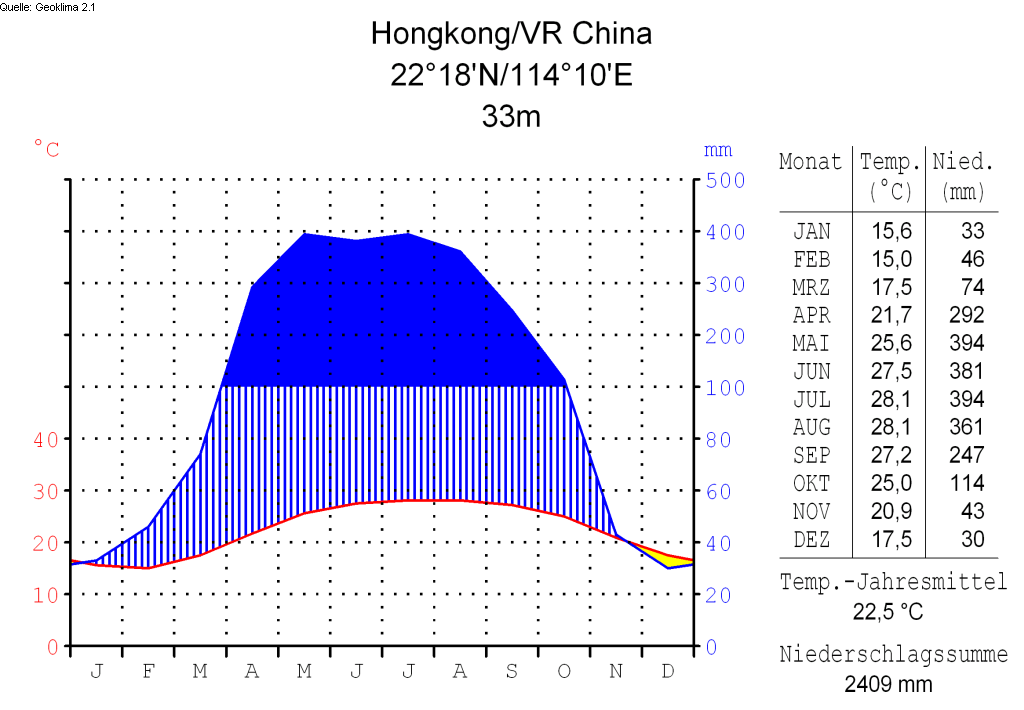 climate chart in the format by Walter and Lieth, metric, °Celsisus and millimeters, made with Geoklima 2.1